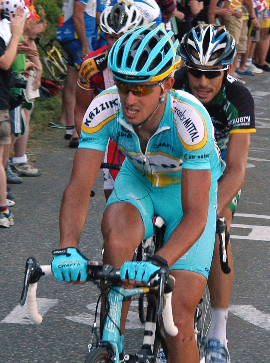 Antonio Colom at stage 7 of the Tour de France 2007 on the Col de la Colombière.